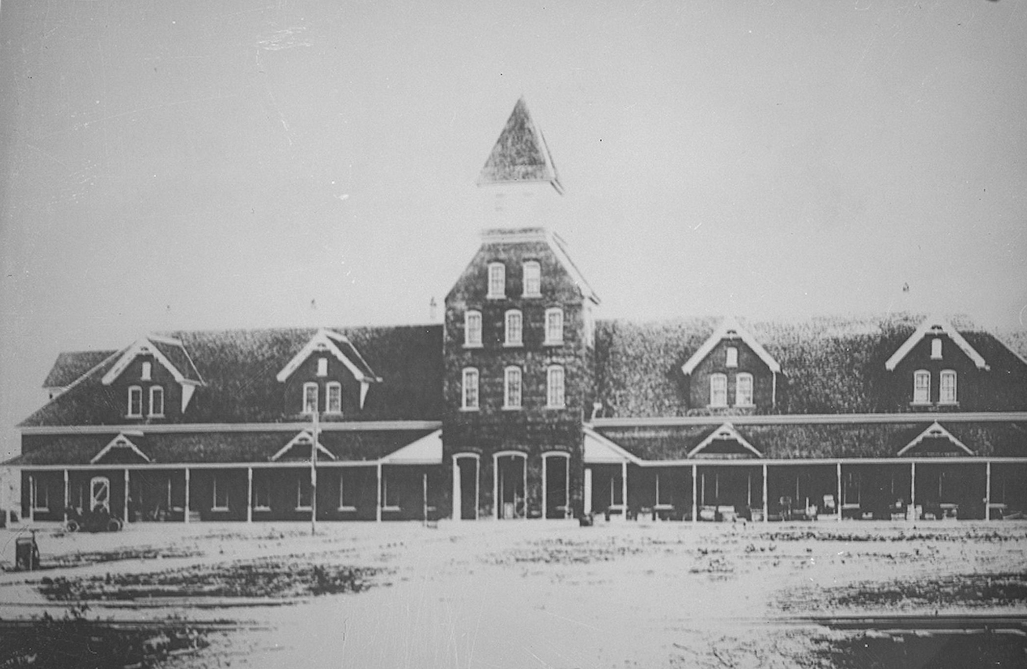 The former Camp One "Old Camp One at the Mississippi State Penitentiary."